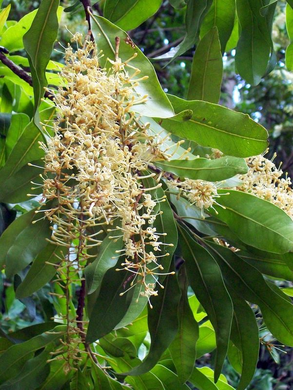 Floydia in flower at Royal Botanic Gardens, Sydney